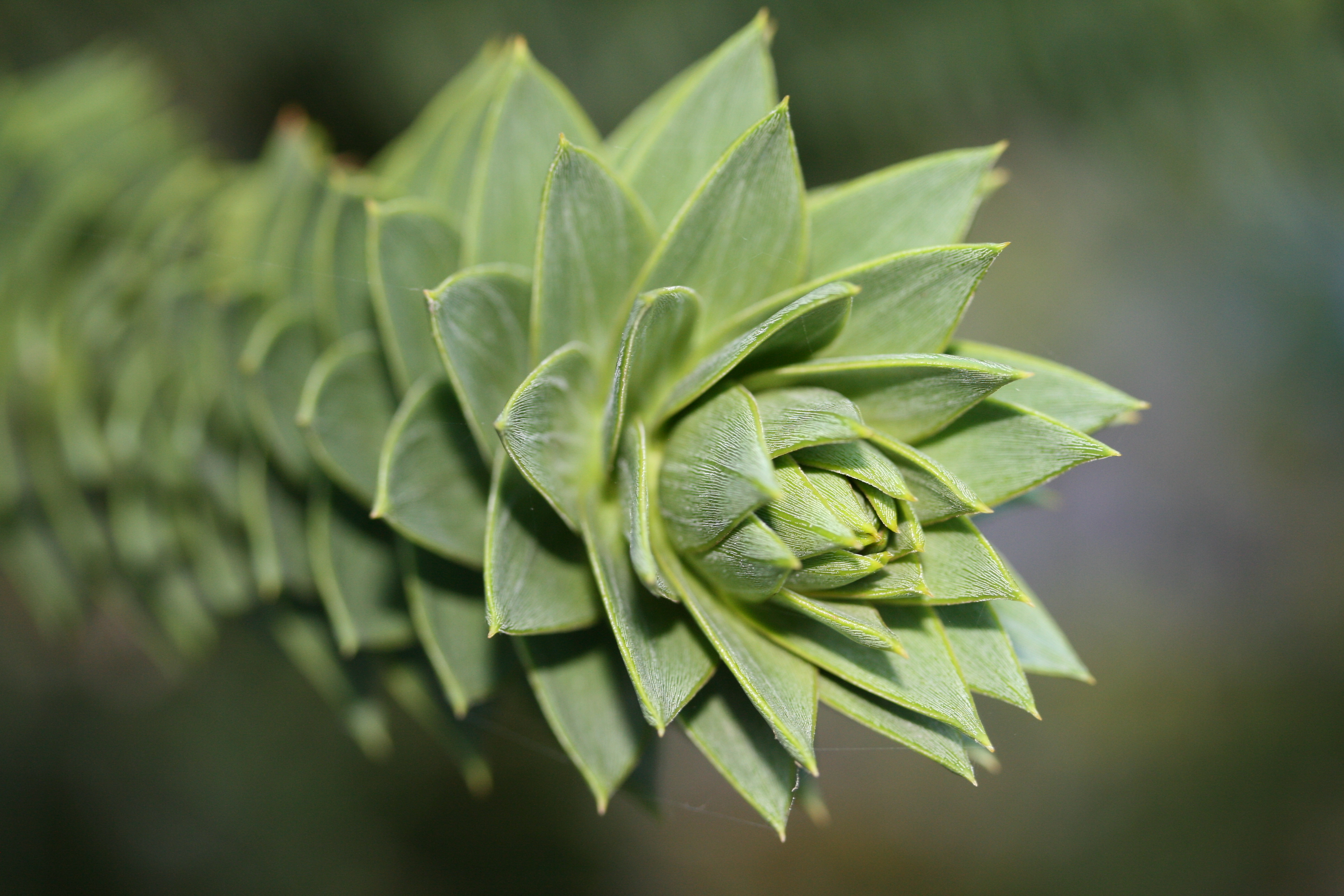 Araucaria araucana